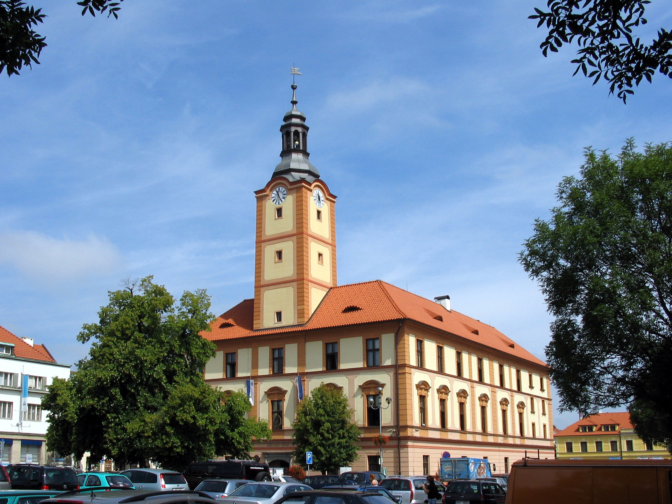 Town hall in Sušice, Plzeň Region, Czech Republic